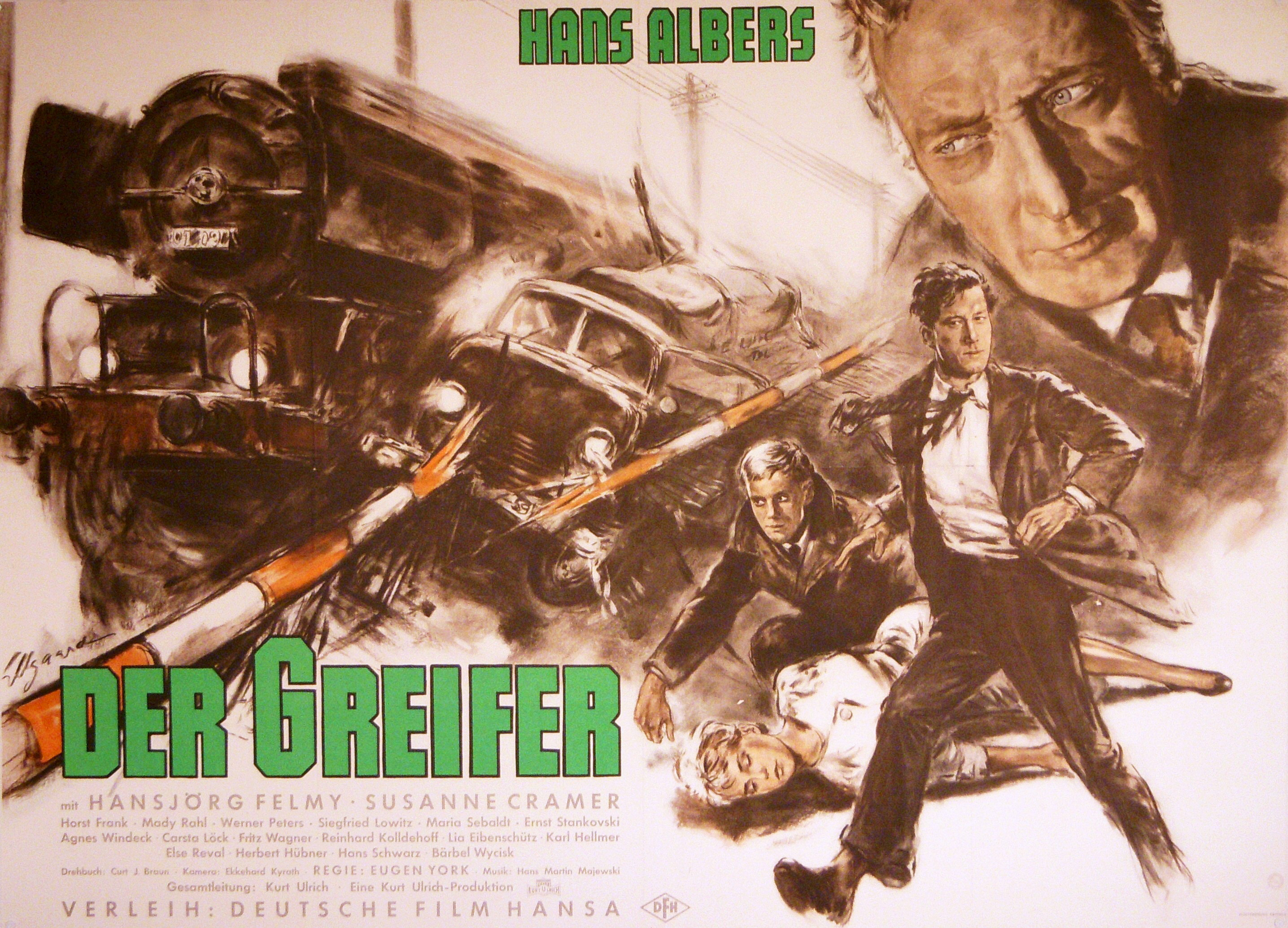 Movie poster for the film The Copper (Der Greifer) (1958).